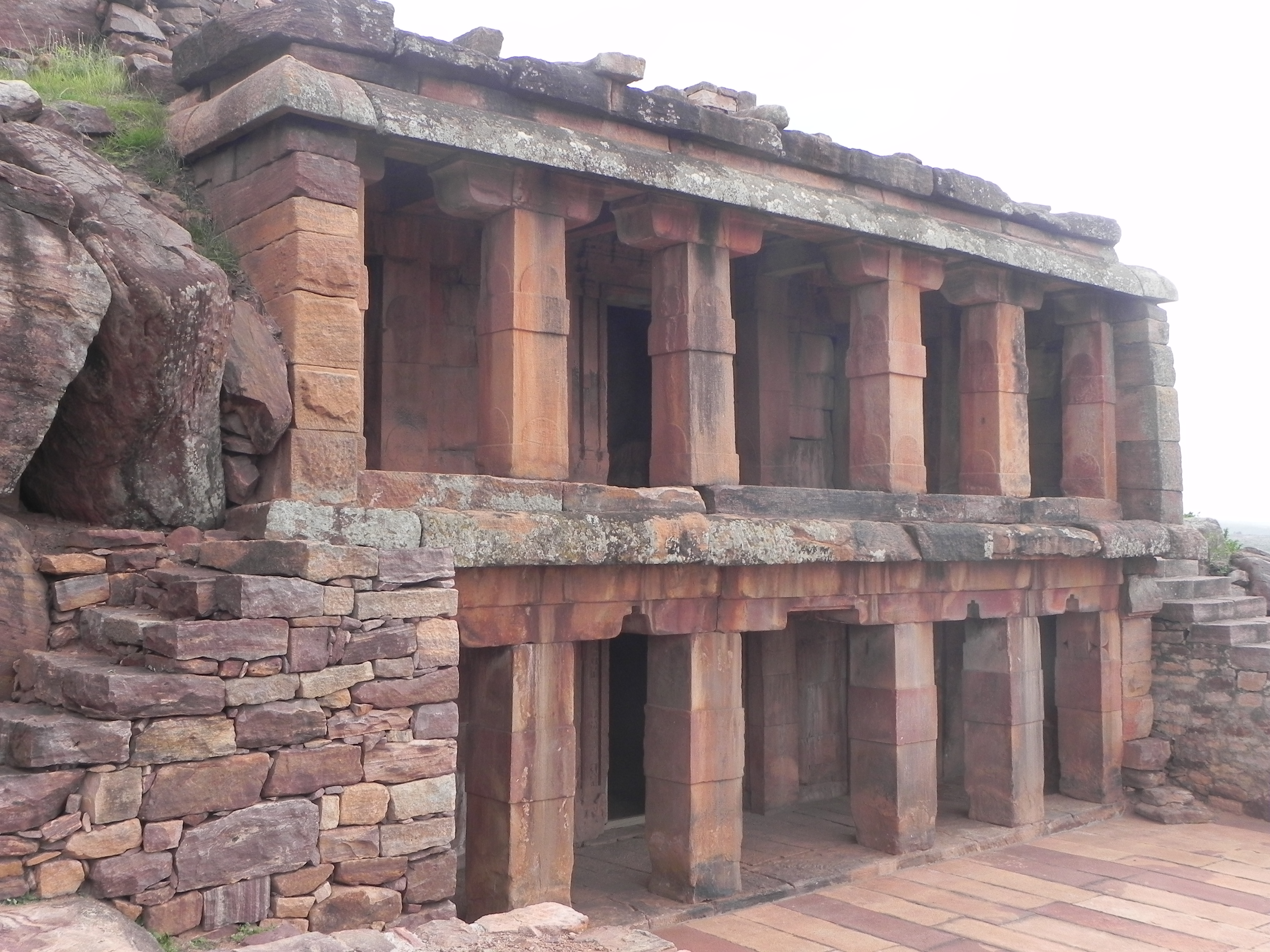 Two storeyed Buddhist Chaithya (Hall) and cave at Meguti hill, Aihole, Karnataka, India